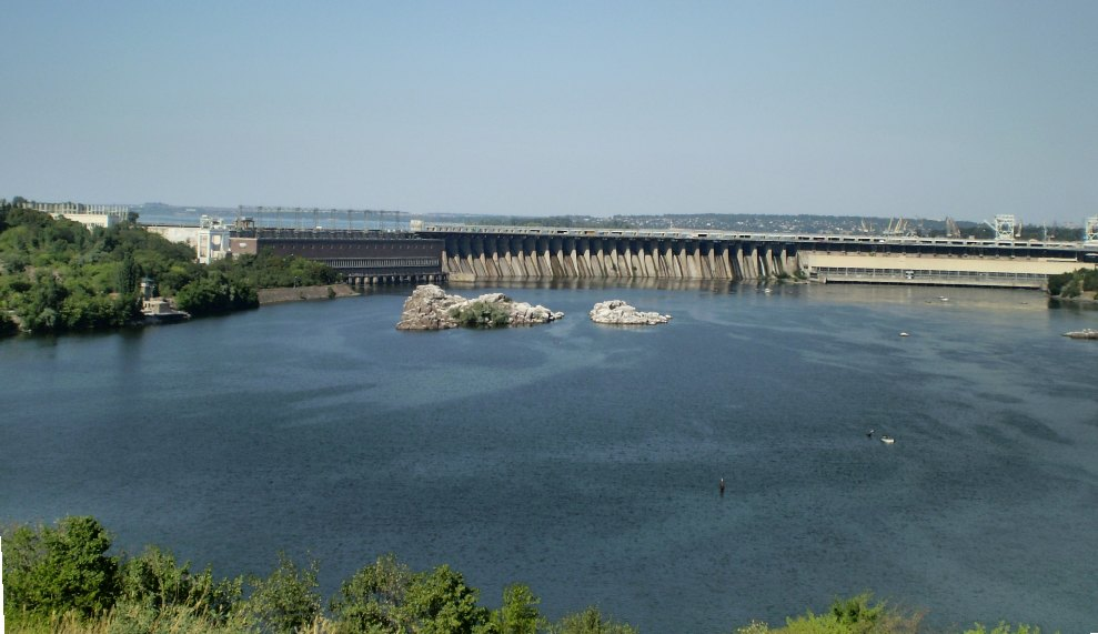 Dnieper Hydroelectric Station, wiev from Khortytsya